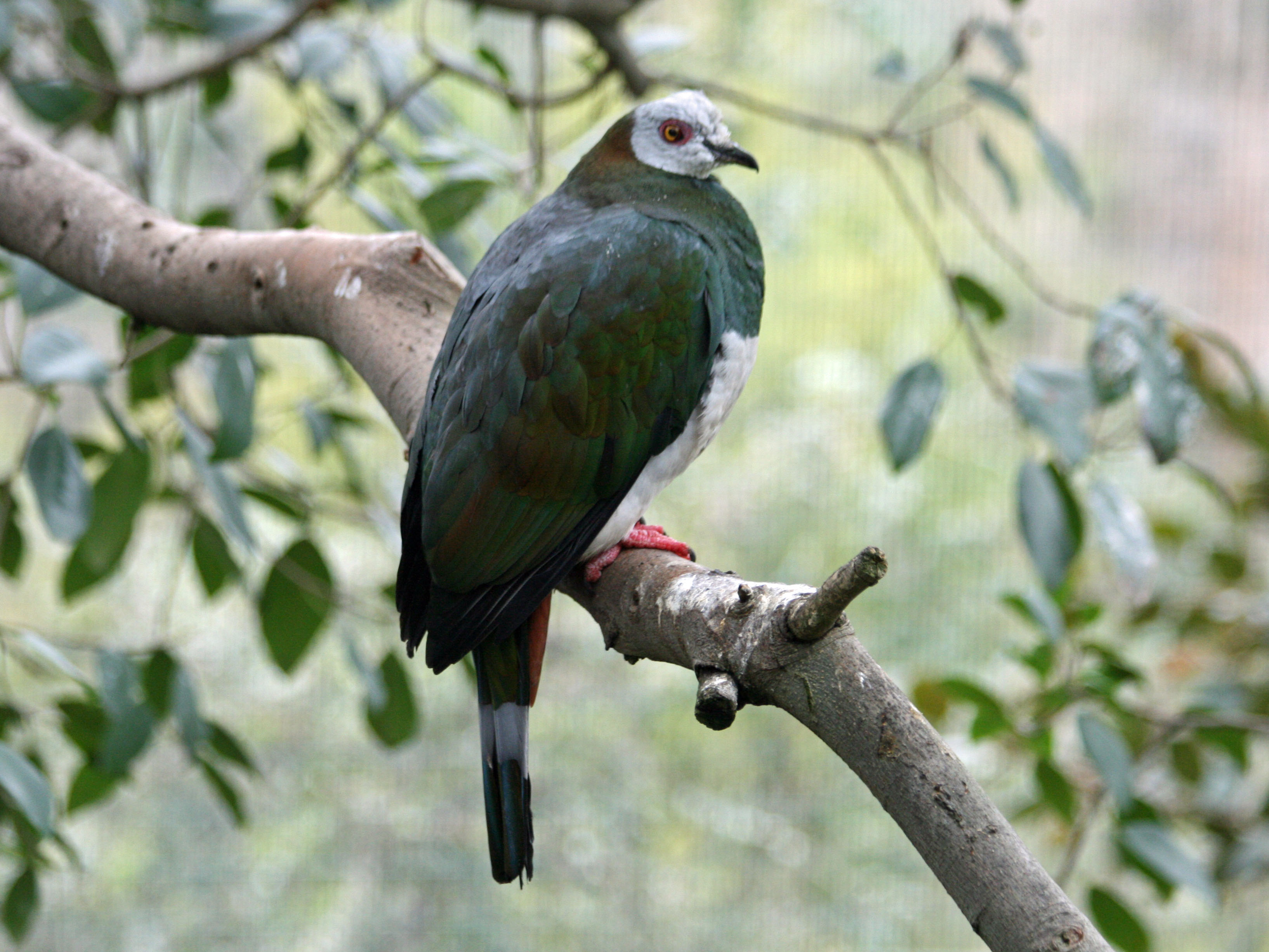 White-bellied Imperial Pigeon (Ducula forsteni) - San Diego Zoo